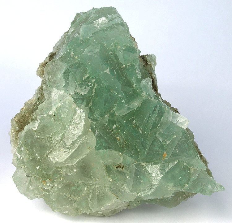 Halite Locality: Lubin, Lubin District, Legnica, Lower Silesia (Dolnośląskie), Poland (Locality at ) Size: 10.0 x 8.5 x 5.1 cm. A specimen of sharp halite crystals from Poland that have this green color from inclusions of malachite.